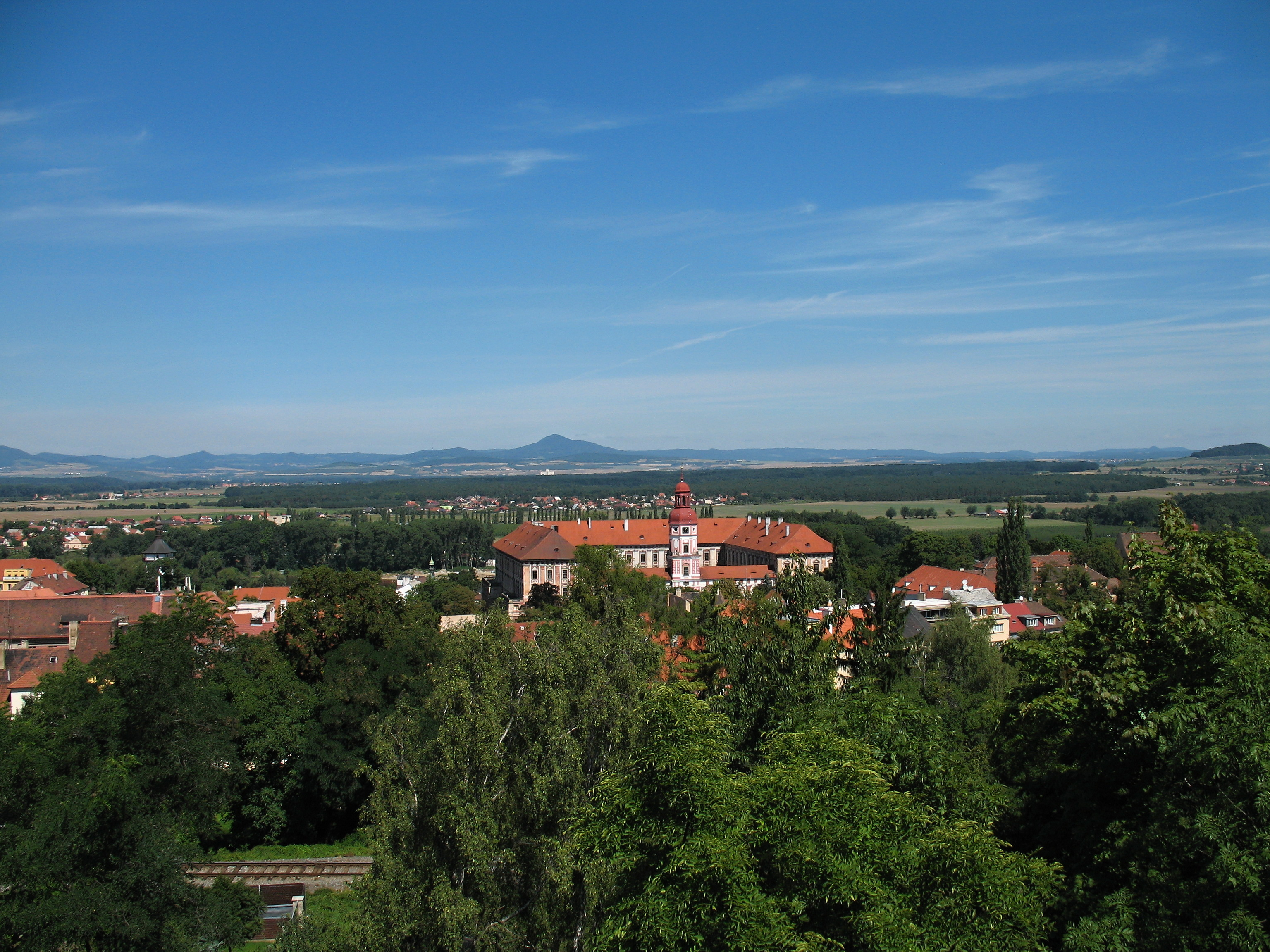 Views from Kratochvílova rozhledna in Roudnice nad Labem, Czech Republic